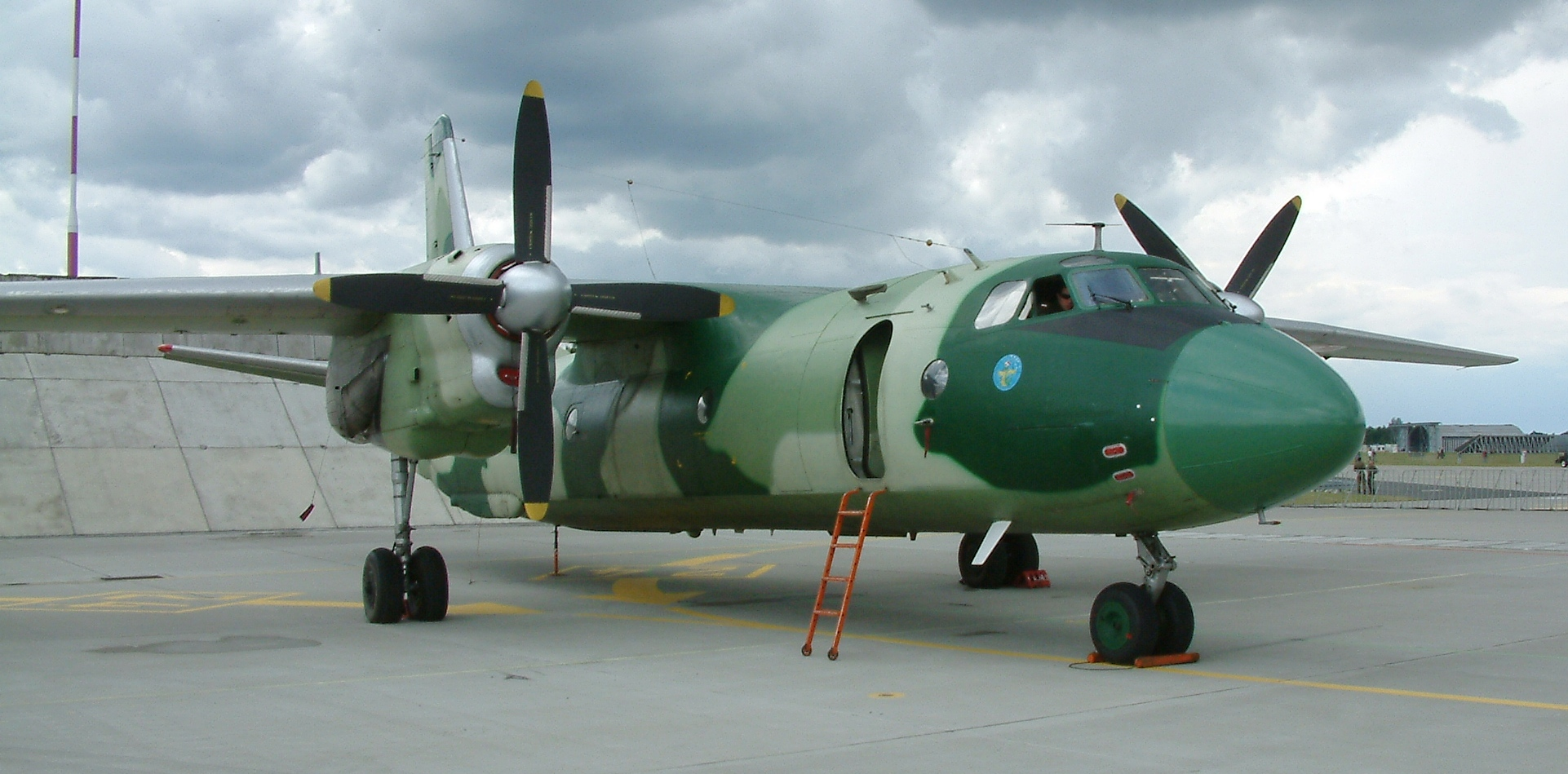 An-26 #1509 from 13th Transport Aviation Sqn, 31st Air Base Poznań-Krzesiny